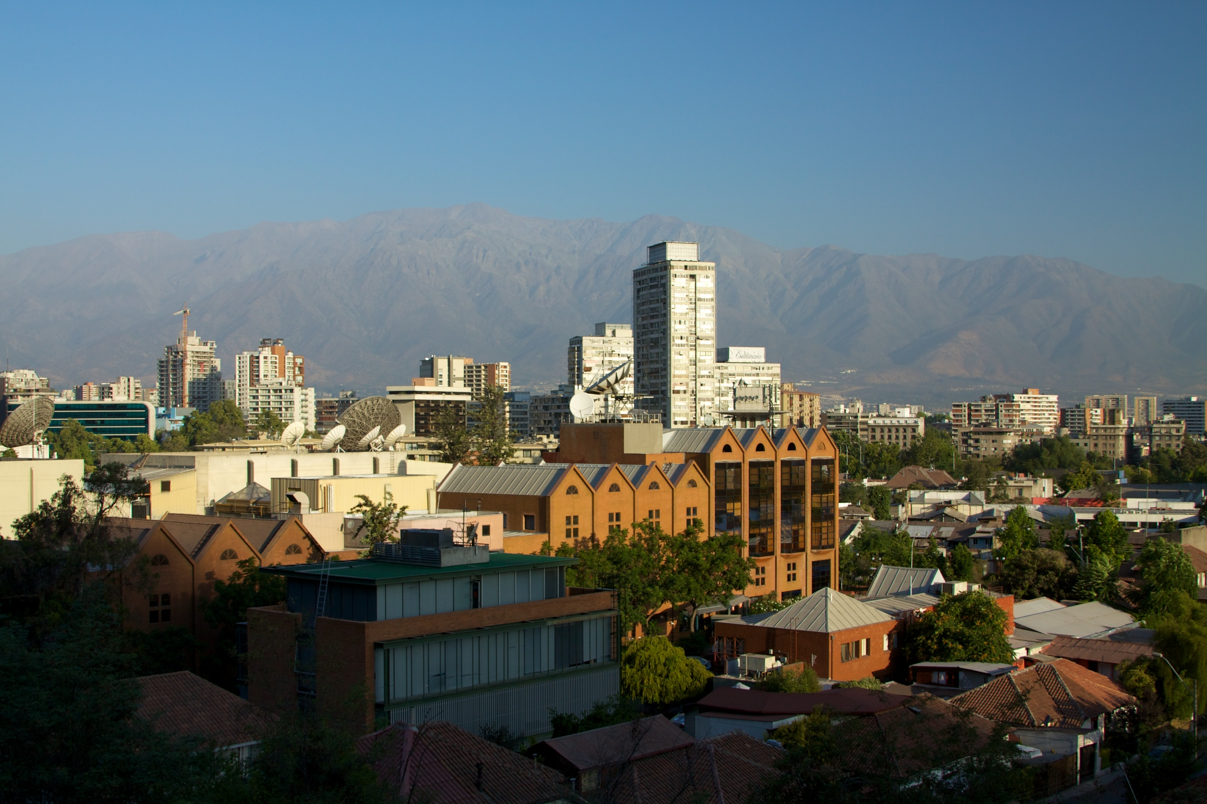 Chile - Santiago 12 - overlooking the city